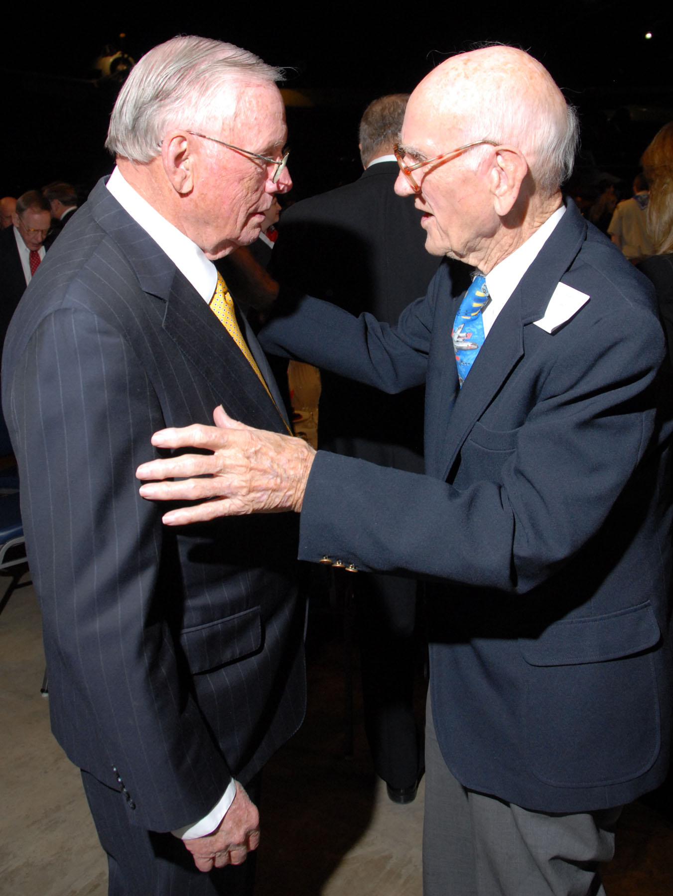 caption: "DAYTON, Ohio (10/27/2009) -- Former astronaut Neil Armstrong (left) speaks with Doolittle Raider Tom Griffin before the Distinguished Eagle Scout Award presentation at the National Museum of the U.S. Air Force. (U.S. Air Force photo)"